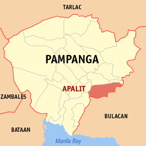 Map of Pampanga showing the location of Apalit